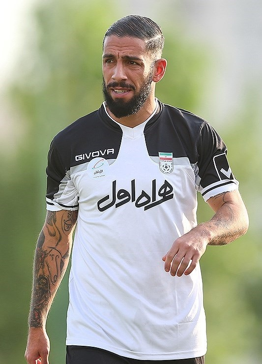 Ashkan Dejagah at Iran national football team training